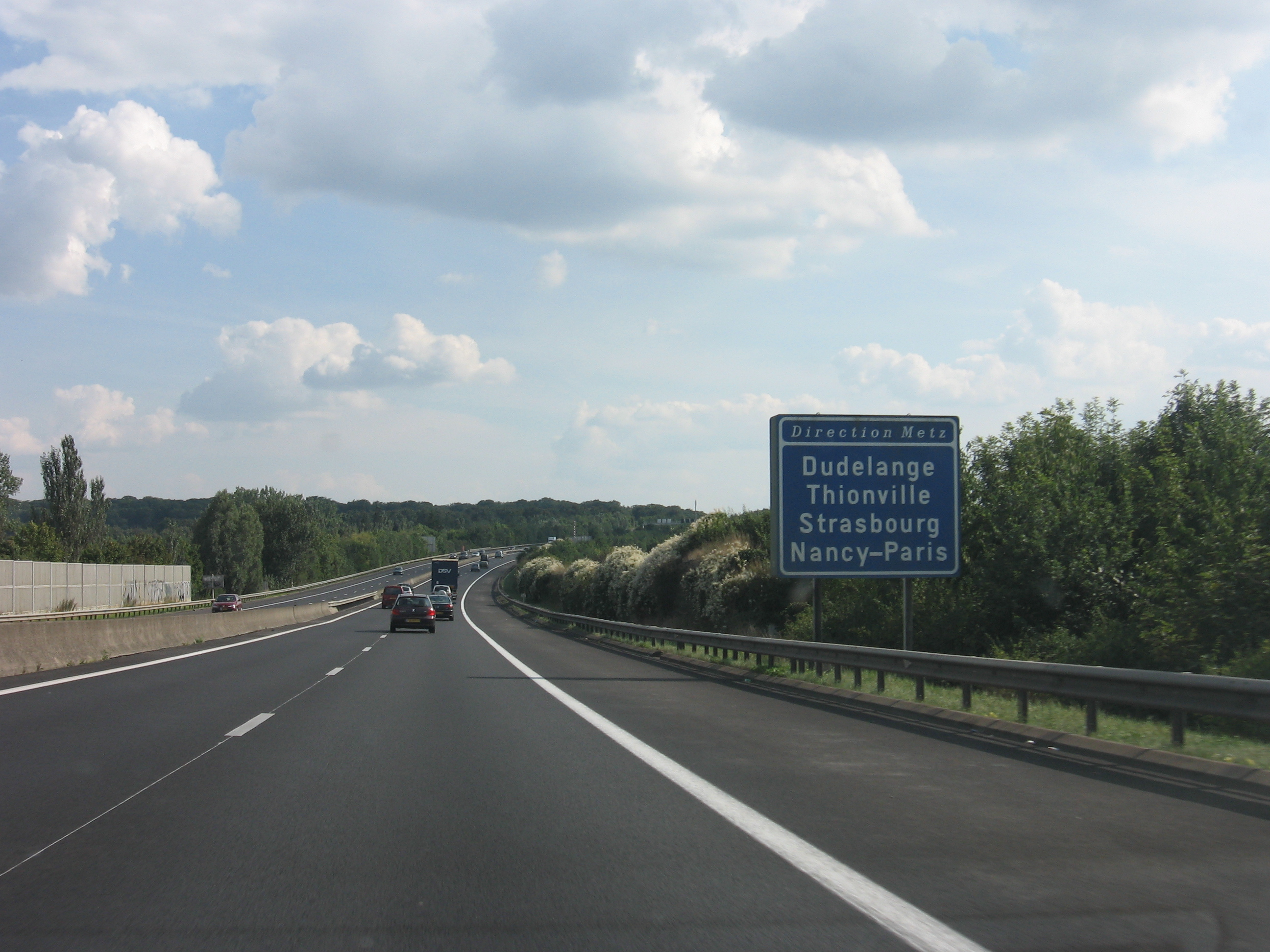 A3 (Luxemburg)